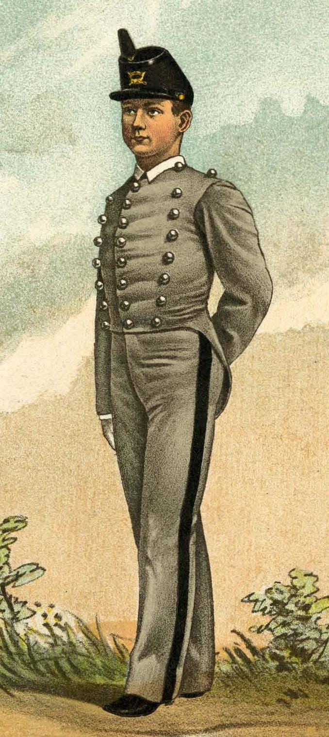 Colour images depicting uniforms of the US Army, prepared under instructions from the Quartermaster General